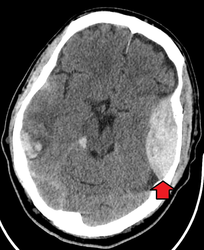 Epidural hematoma on the persons left (images right) with an associated skull fracture. Also has some bleeding on the persons right.